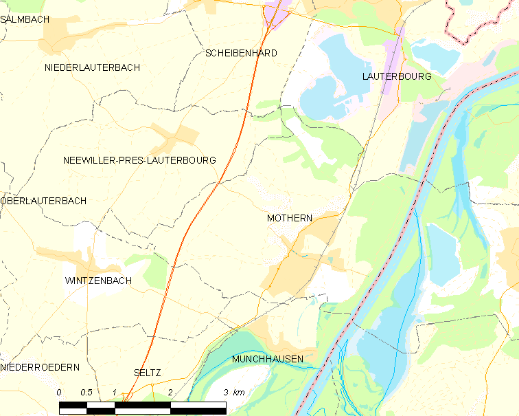 Map of French municipality